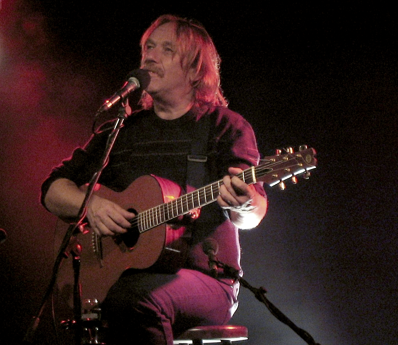 Jaromír Nohavica – czech songwriter, lyricist, and poet. Concert in Poznań, Poland, 2004-06-20.